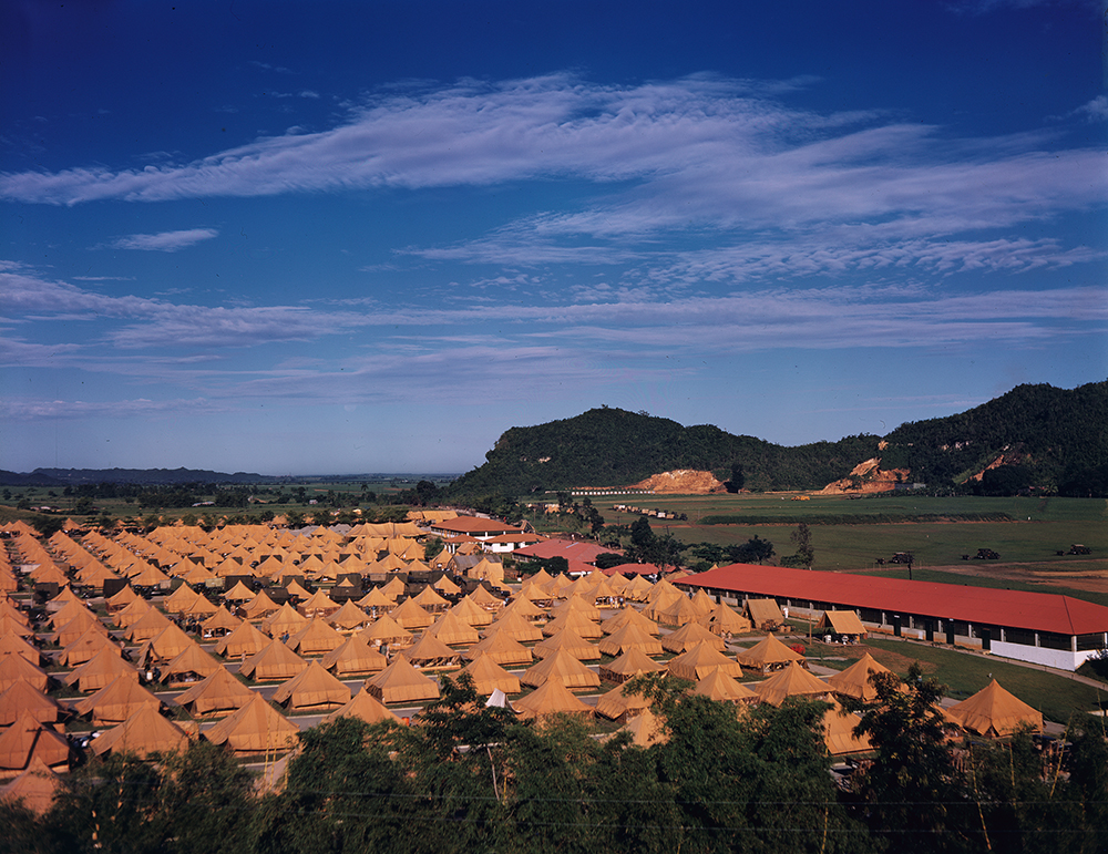 Title: Puerto Rico, Camp Buchanan Creator: Robert Yarnall Richie Date: 1939 Place: San Juan, Puerto Rico Physical Description: 1 transparency: film, color; 10 x 13 cm. File: ag1982_0234_2063_K_33_sm_opt.jpg Rights: Please cite DeGolyer Library, Southern Methodist University when using this file. A high-resolution version of this file may be obtained for a fee. For details see the web page. For other information, . For more information, View the Robert Yarnall Richie Photograph Collection